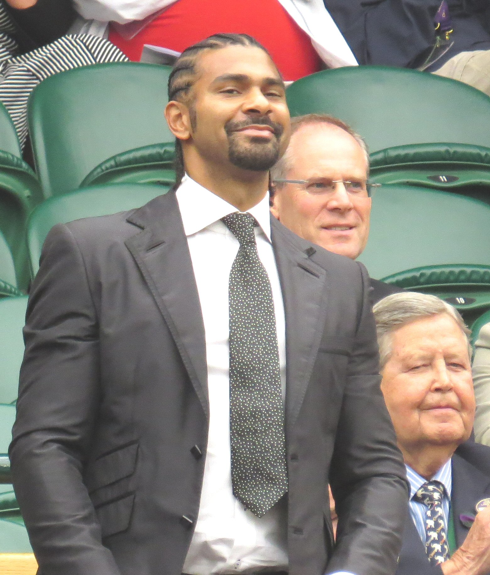 David Haye in the royal box at Wimbledon 2014